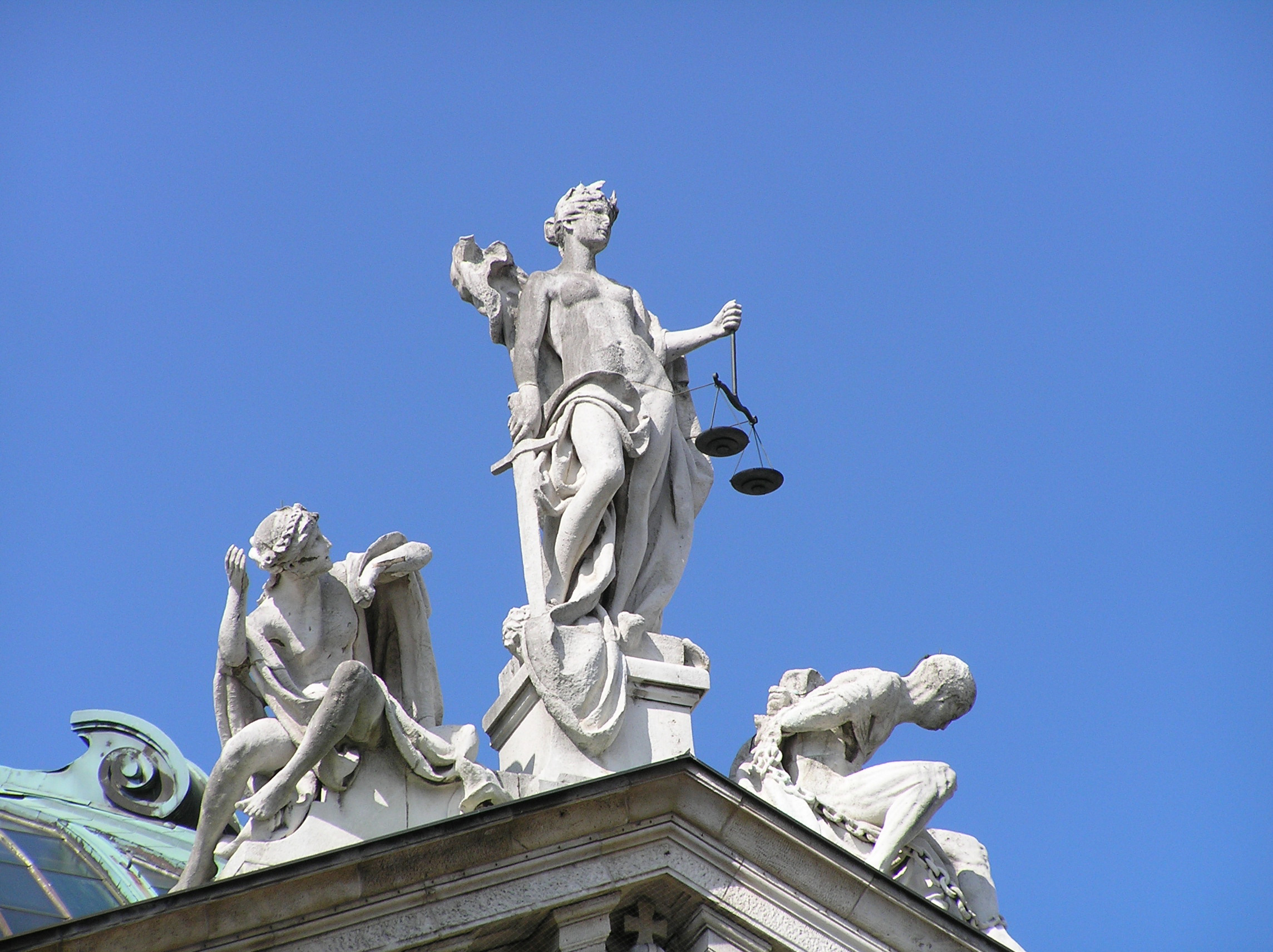 Group of statues by Balthasar Schmitt (1858–1942) comprising Justitia flanked by Innocence (left) and Vice (right) on top of the southern gable of the Palace of Justice, Munich, Germany.